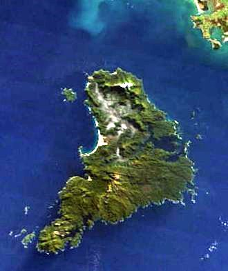 This satellite image shows Stewart Island in the aftermath of a severe blizzard that hit southern New Zealand in July 2003. Bluff can be seen in the top right.